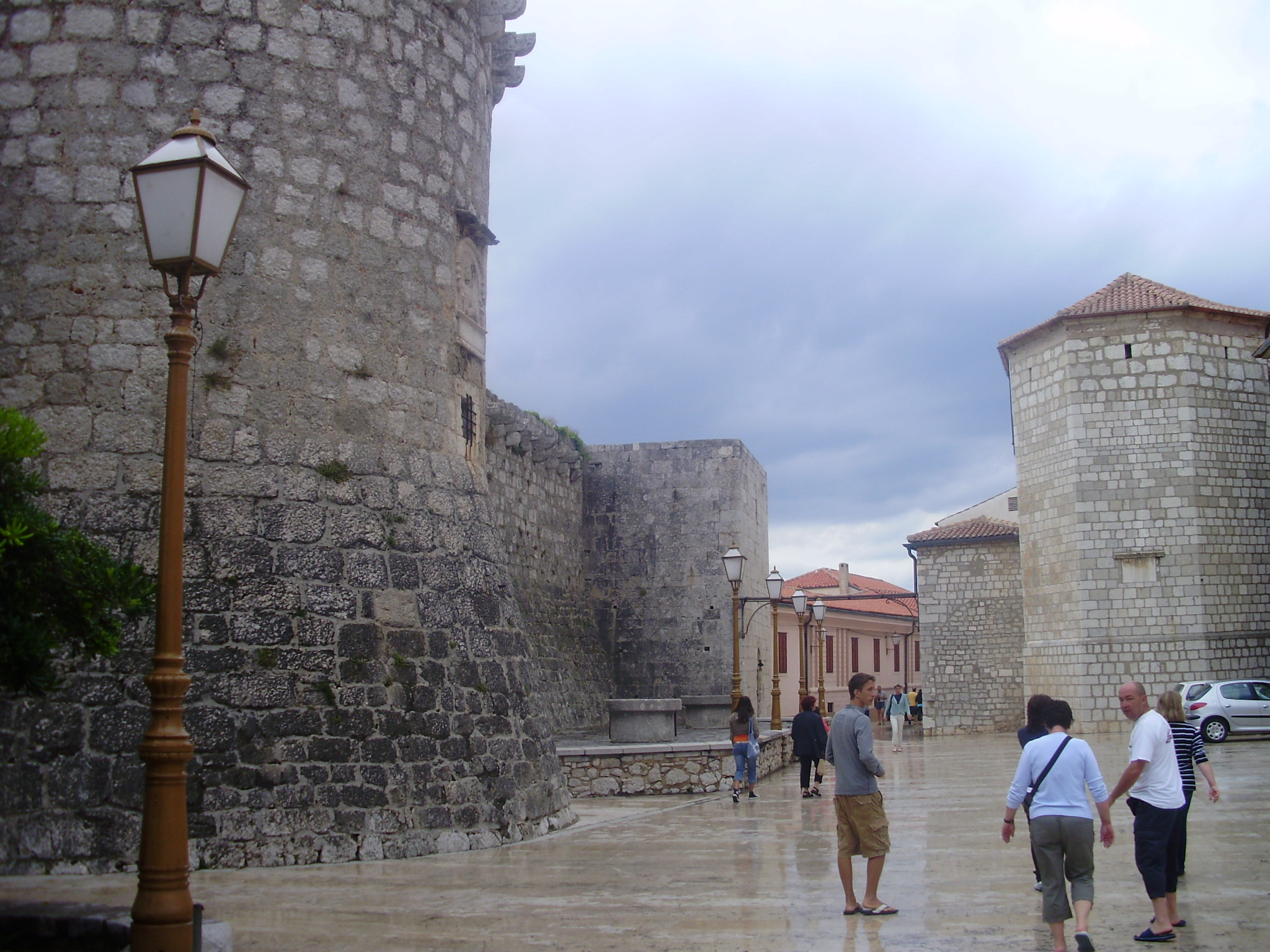 City walls of Krk